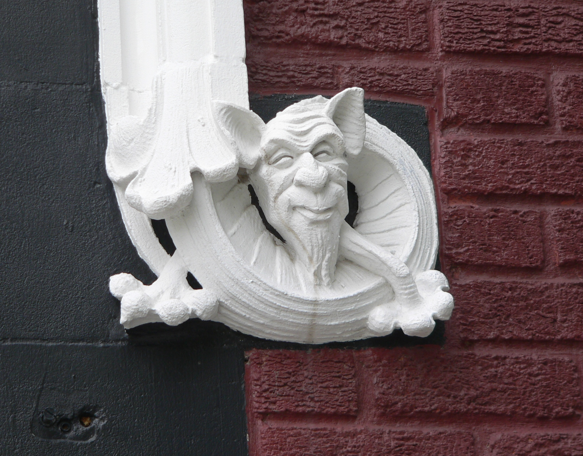 Grotesque on east side of front (south) entrance of Sidney Carnegie Library building in Sidney, Nebraska. The Jacobethan building was constructed in 1914. It is listed in the National Register of Historic Places. It now houses the Cheyenne County Chamber of Commerce.